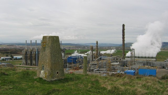 Mossmorran from Pilkham Hills. Pilkham Hills, an igneous intrusion, shields the vast Mossmorran petrochemical plant from many views. However from the trig pillar there is a fine view of the plant. Built to use the North Sea reserves and is connected to the Aberdeenshire coast by pipeline. Sometimes they flare off gas very spectacularly here, lighting up the sky for many miles.